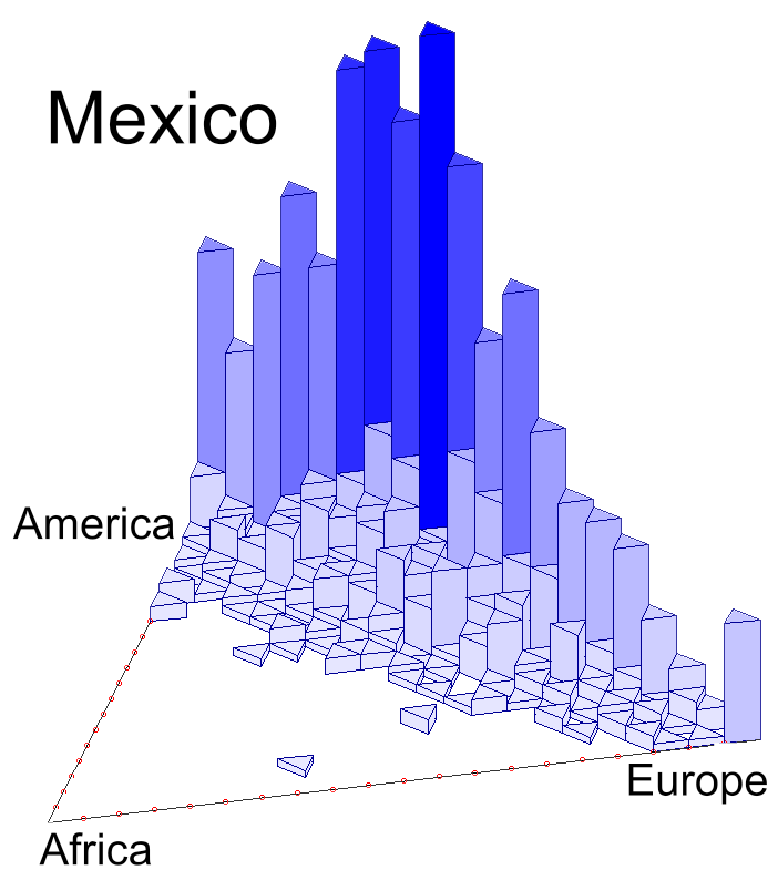 Trivariate histograms for African, Native American and European ancestry for Mexicans. The samples collected in México have high median Native American ancestry (56%) and low median African ancestry (5%). Cropped from File:Trivariate histograms for African, Native American and European ancestry for each country sample.png.